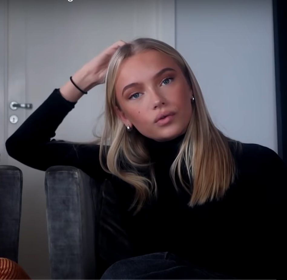 Emma Ellingsen in a YouTube video labelled with a Create Commons sharing license